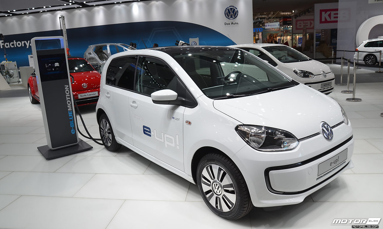 Volkswagen e-up! at Hannover Messe, April 2013